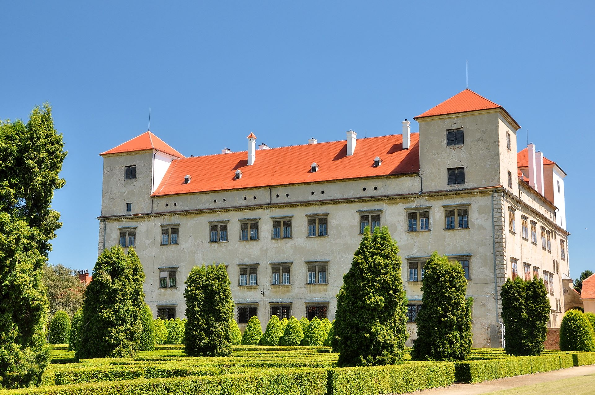 Schloss Bucovice